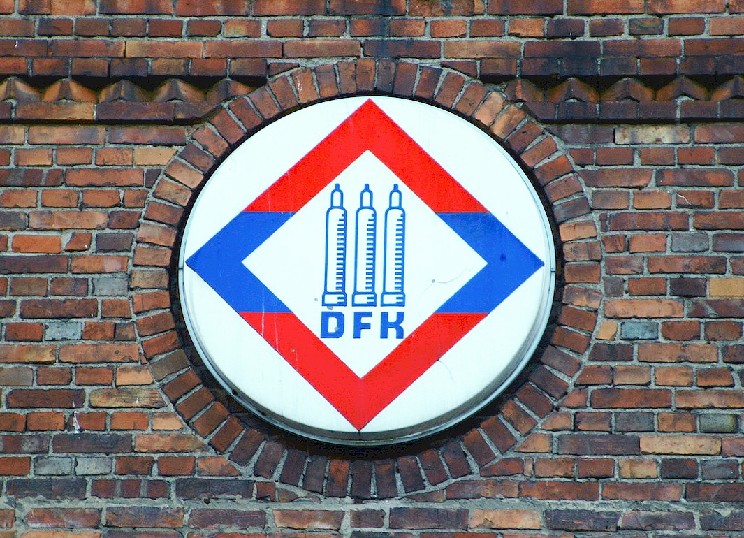 Former factory of "The United Carbonic Acid Factories Ltd." in Liljeholmen, Stockholm